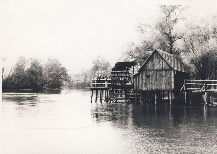 Watermill of Tomášikovo in year 1985